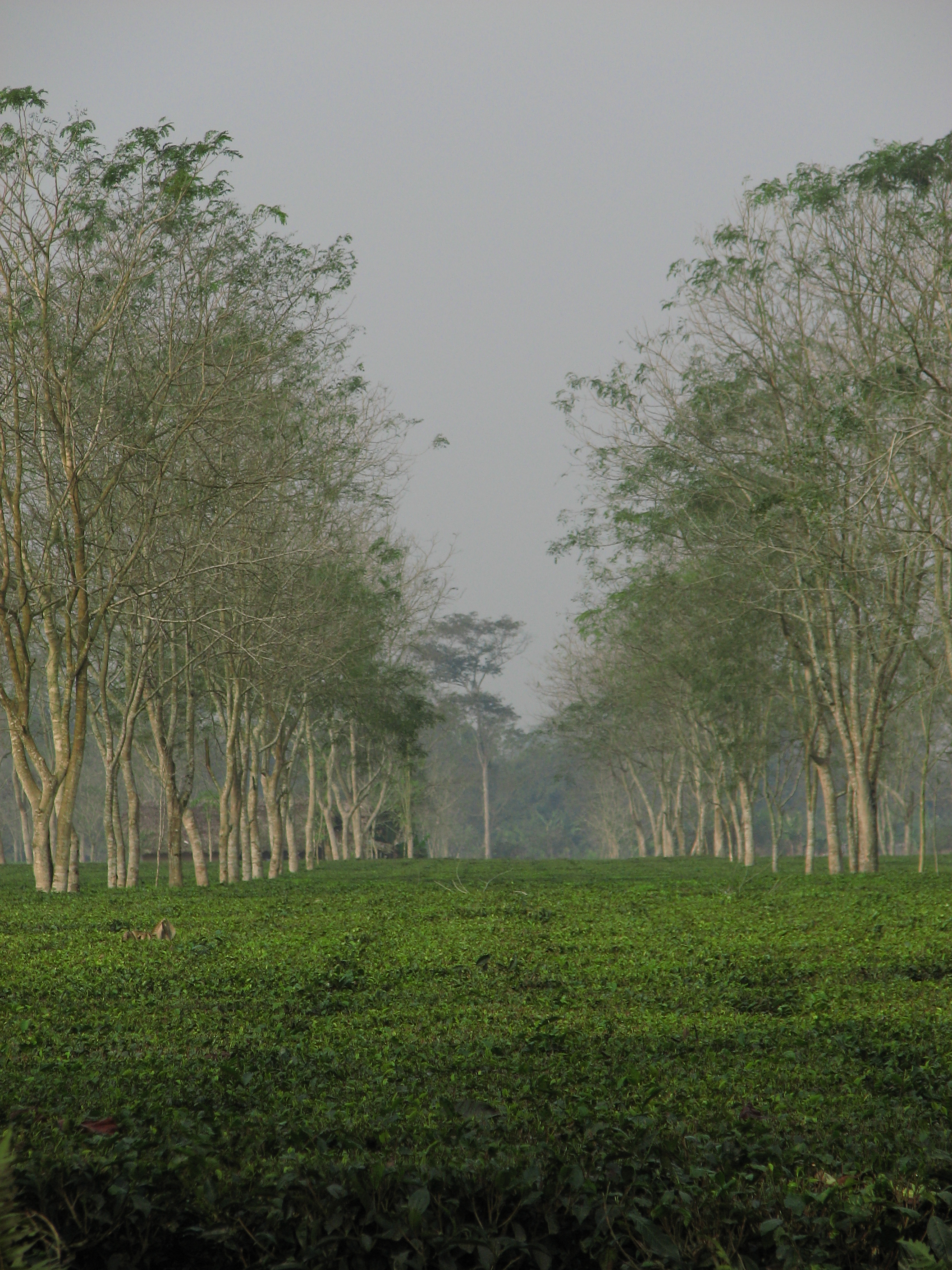 Lohit District, Arunachal Pradesh